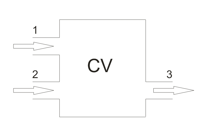 Schema of flow of fluid through constant volume